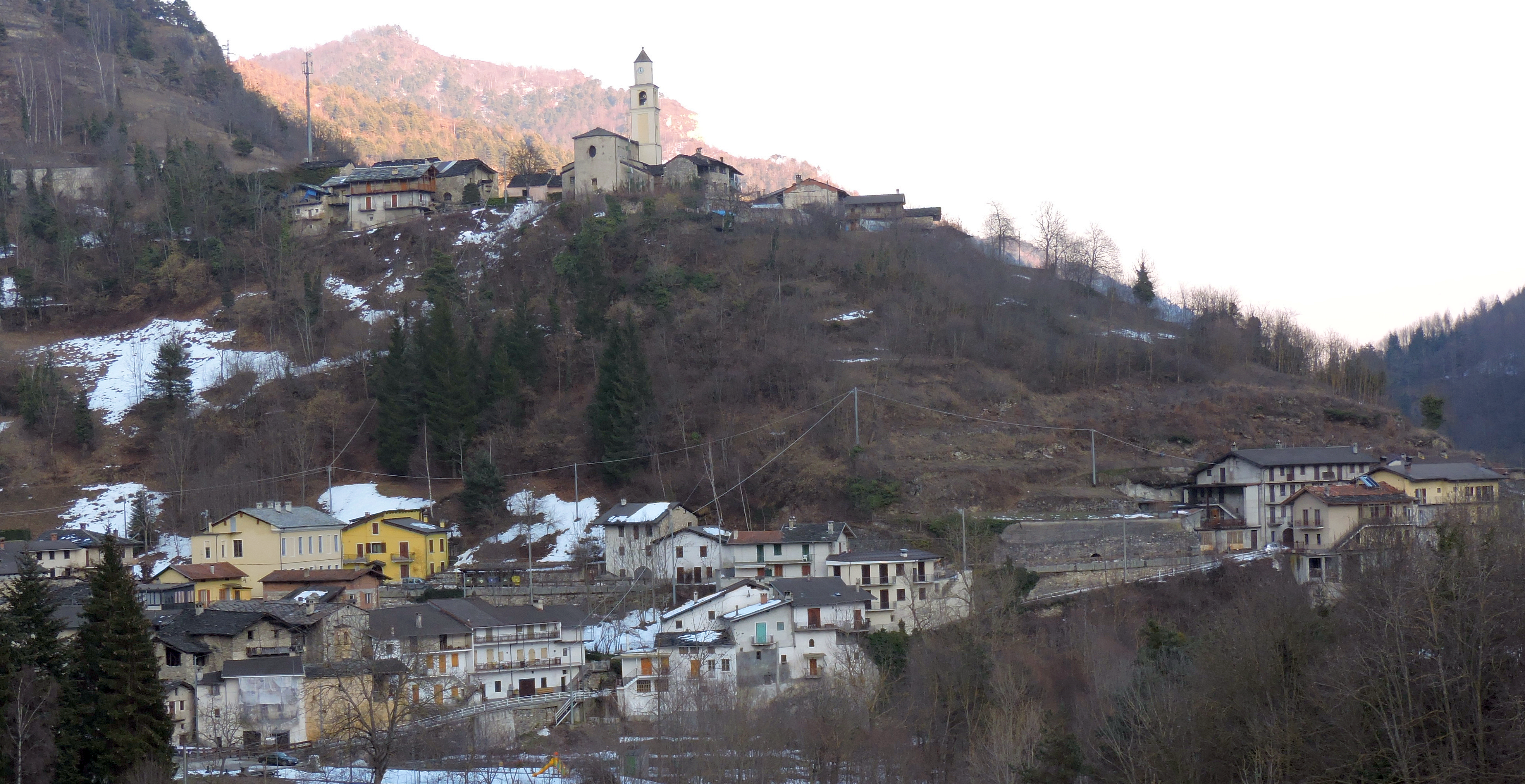 Macra (CN, Italy): panorama